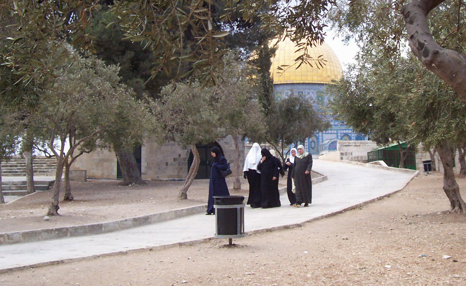 path to Dome of the Rock, from the north